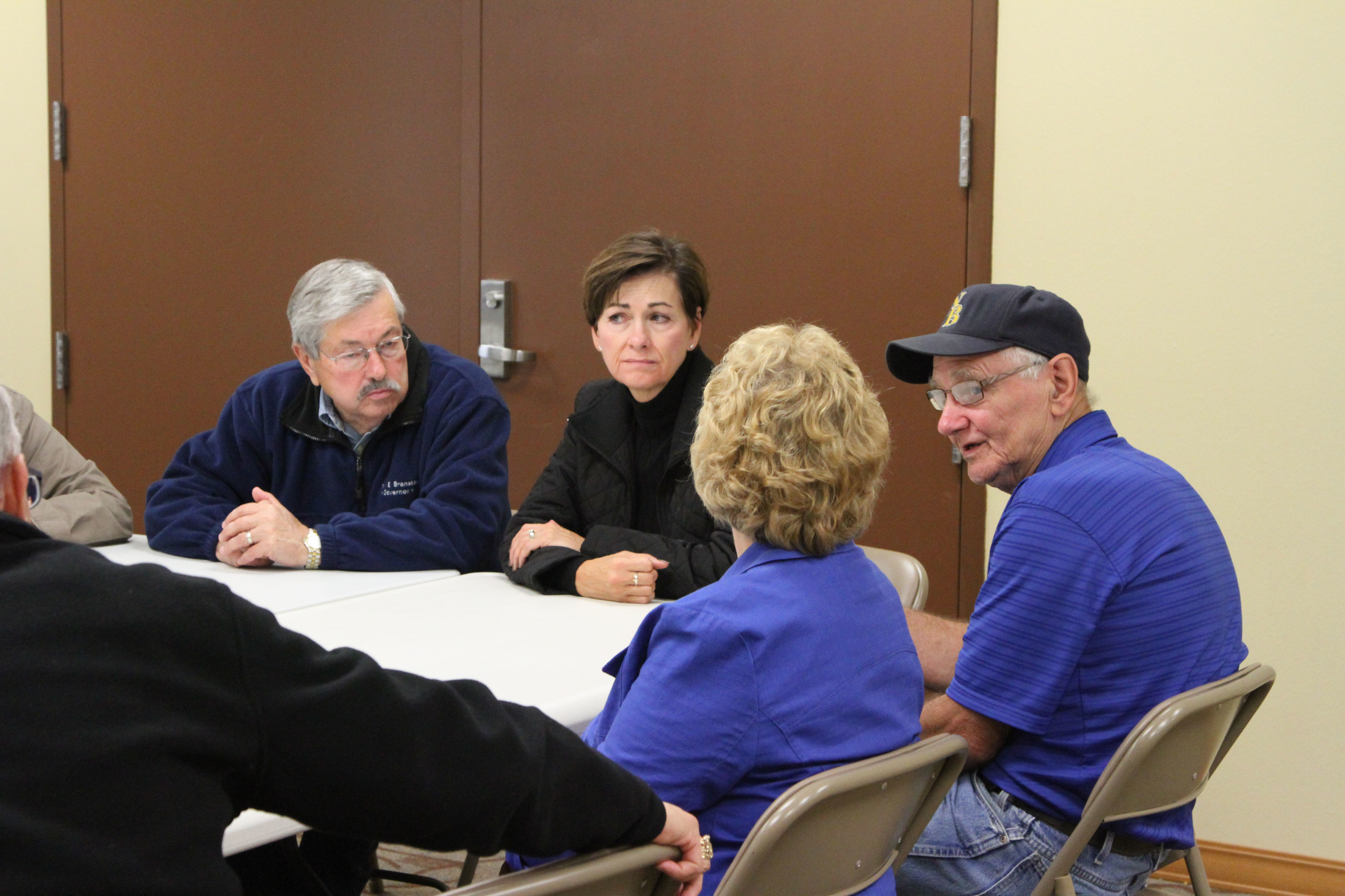 On Monday, September 26, Governor of Iowa Terry Branstad, Lieutenant Governor of Iowa Kim Reynolds, and The Adjutant General of Iowa Timothy Orr travel to northeast Iowa to tour areas most affected by the 2016 Cedar River flooding. The group met with the mayors of Charles City and Green township, and also met with emergency response teams in the area to discuss damage caused by flood waters, the estimated costs associated, and the citizens of Iowa in need. They also spoke of the efforts of the Iowa National Guard and local emergency response teams, and the progress made since the flooding began on Saturday. Governor Branstad is working to have a federal state of emergency declared to gain further support for Iowa's families and industries affected; he hopes to have a response from Washington soon. This photo: City of Greene Mayor Jim O'Brien speaks during a press conference held at the Greene Community Center/City Hall. (Iowa National Guard photo by Tech. Sgt. Linda K. Burger/Released) Unit: Joint Forces Headquarters, Iowa National Guard DVIDS Tags: Iowa; flooding; The Adjutant General; Iowa National Guard; TAG; floods; National Guard; Cedar Rapids; Charles City; flood damage; Greene; IANG; 2016; Terry Branstad; Lieutenant Governor Kim Reynolds; Major General Timothy Orr; Governor of Iowa; Governor Branstad; Lieutenant Governor of Iowa; The Adjutant General of Iowa; Iowa citizens in need; 2016 Iowa Floods